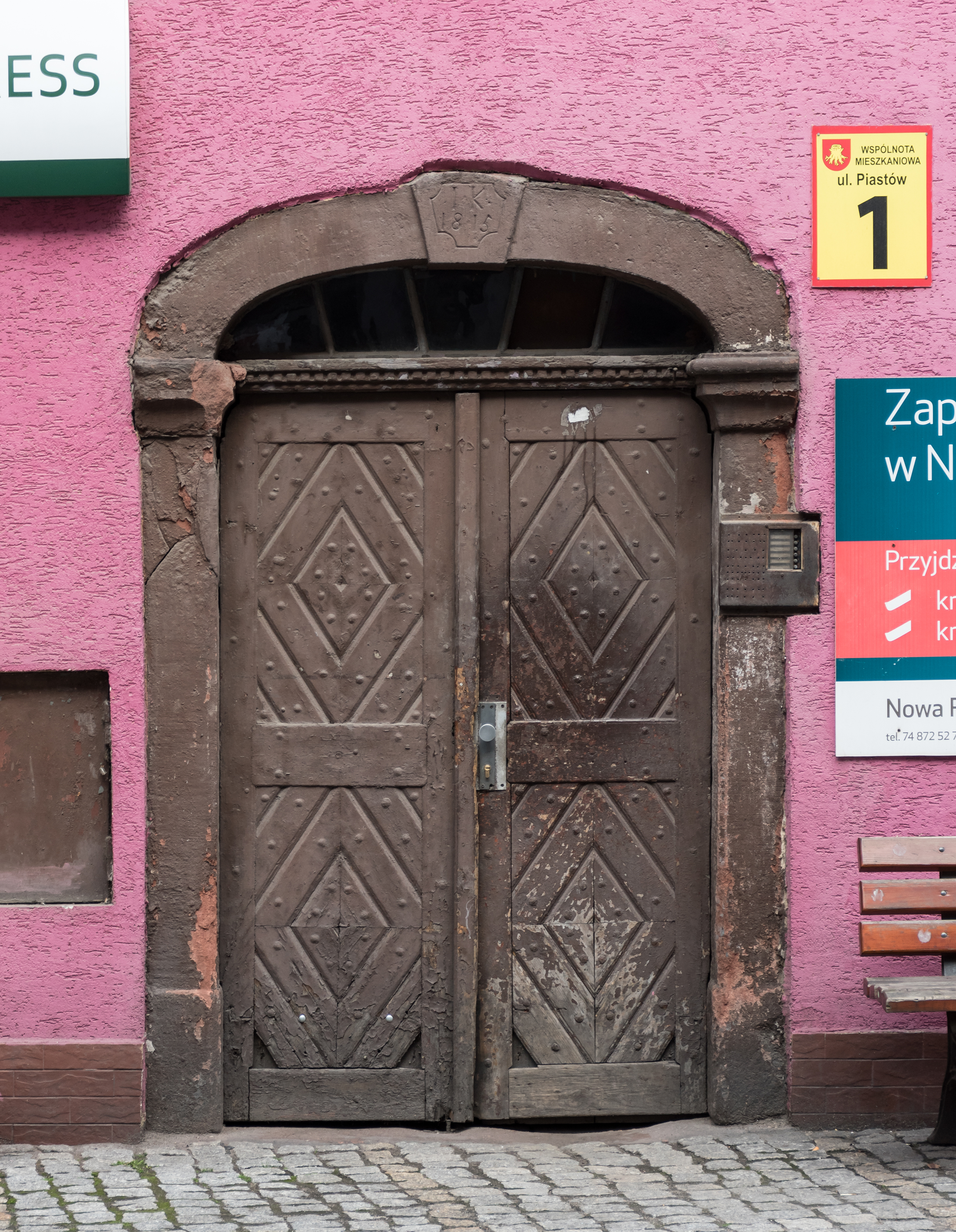 1 Piastów Street in Nowa Ruda